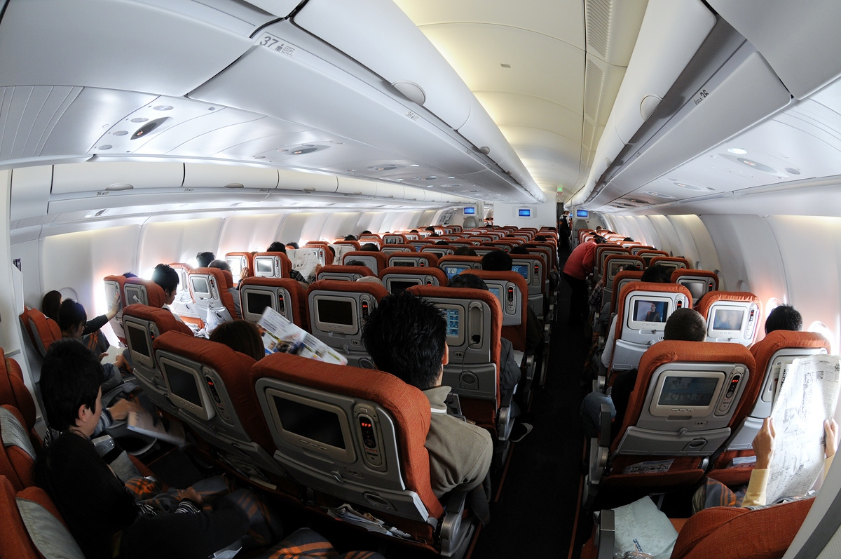 AFL 582 from RJAA to UUEE. Full passengers flight A332 in Japanese big holidays.